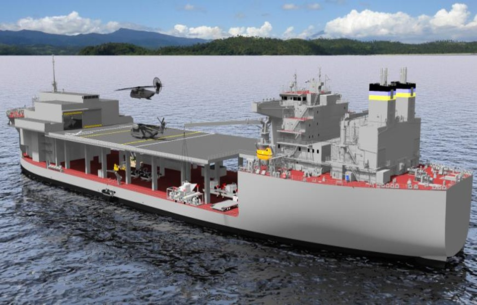 USNS Lewis B. Puller (MLP-3/AFSB-1) An artist’s conception of the Afloat Forward Staging Base. USMC Photo